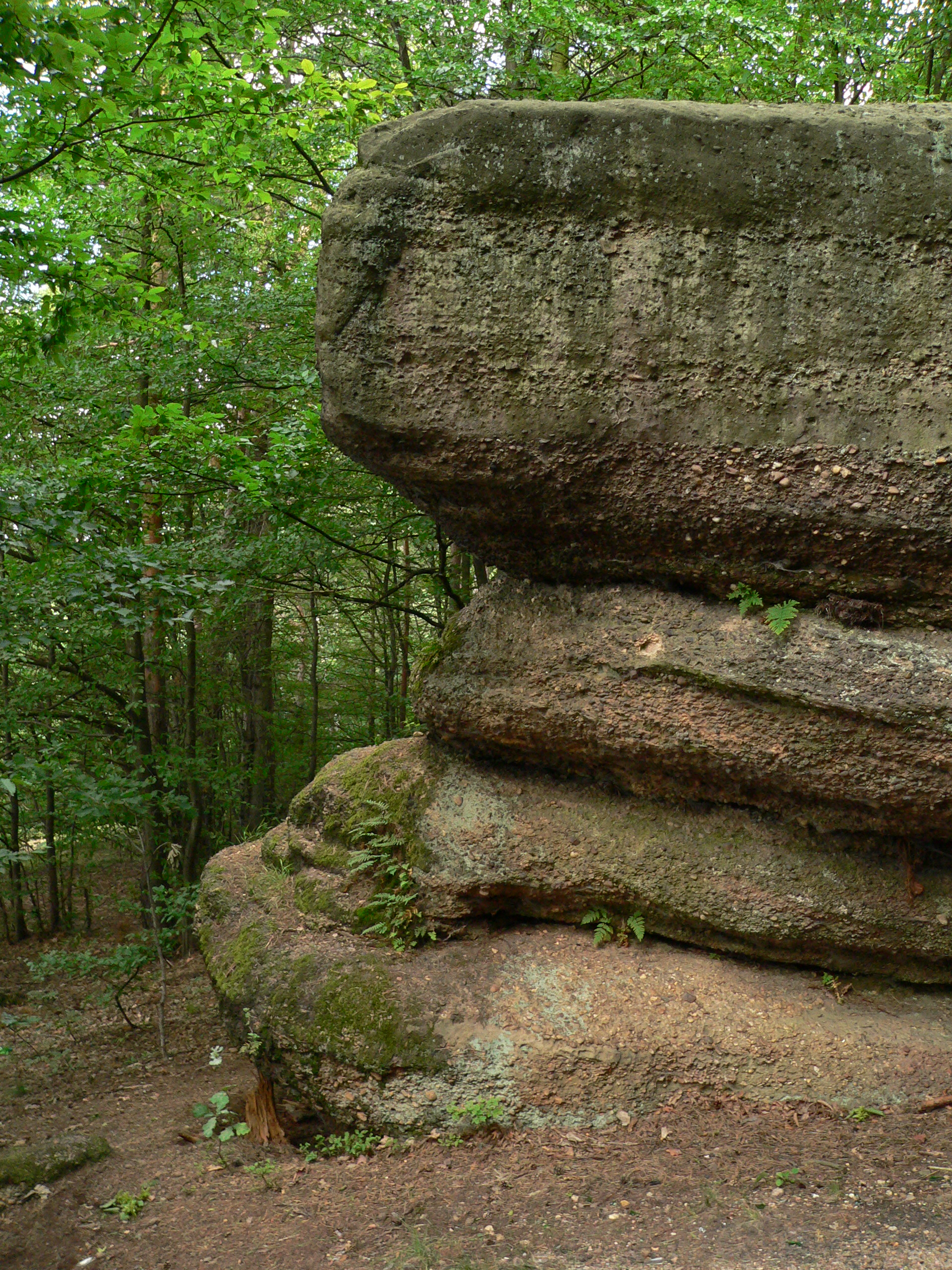 Conglomerate rocks in "Piekiełko Szkuckie" nature reserve, Poland